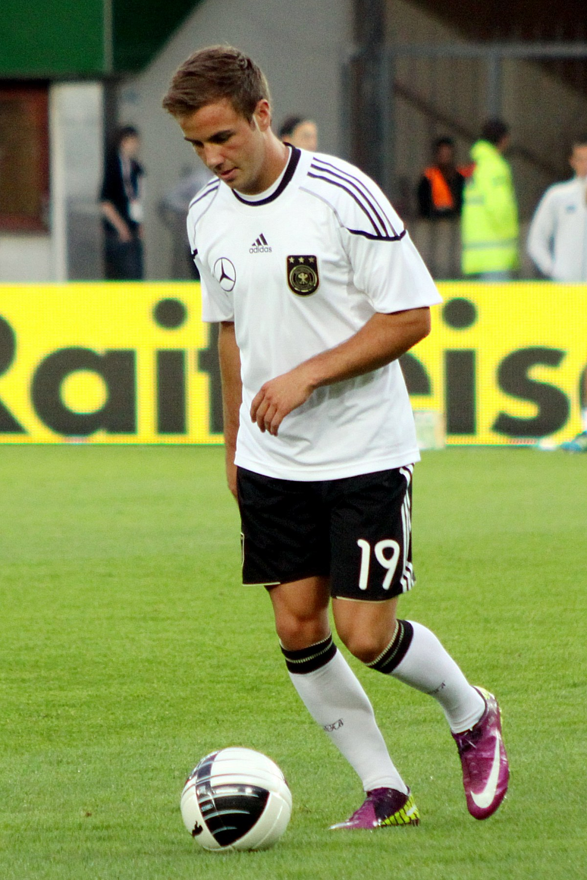 Mario Götze (Borussia Dortmund), german national football team